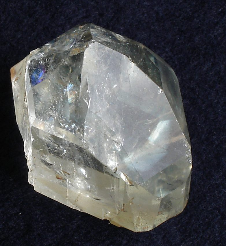 Colorless topaz. Origin:Pedra Azul, Minas Gerais, Brazil